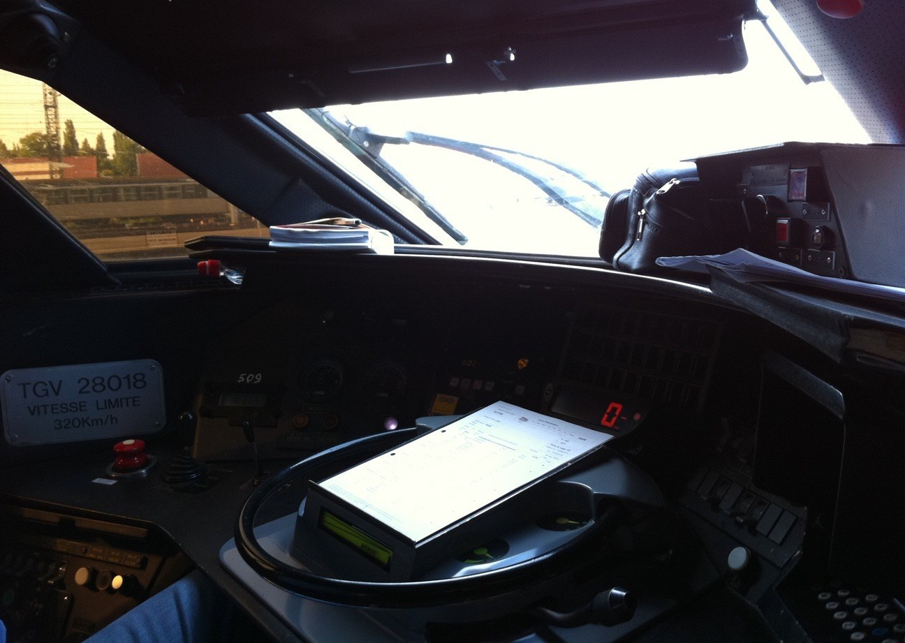 TGV Reseau cab view.